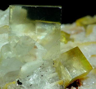 Baryte, Fluorite Locality: Clara Mine, Rankach valley, Oberwolfach, Wolfach, Black Forest, Baden-Württemberg, Germany (Locality at ) Size: small cabinet, 6.5 x 3 x 3 cm FLUORITE (clear and iridescent!) on Barite WOW! This specimen is simply awesome in quality for this historic old mine! It is PRISTINE and bright, of a perfection rarely seen in the mineral world. It is NOT a recent piece, either. The crystals are razor sharp and pristine, and clear/gemmy to a degree that you don't see even in the best Dalnegorsk clear fluorite. You can look right through every fluorite cube to the bladed barite beneath, in fact. In the right lighting, angling the piece this way and that, you can easily see iridescent flashes of color in the smaller crystals. The large crystal is 1.2 cm on edge.